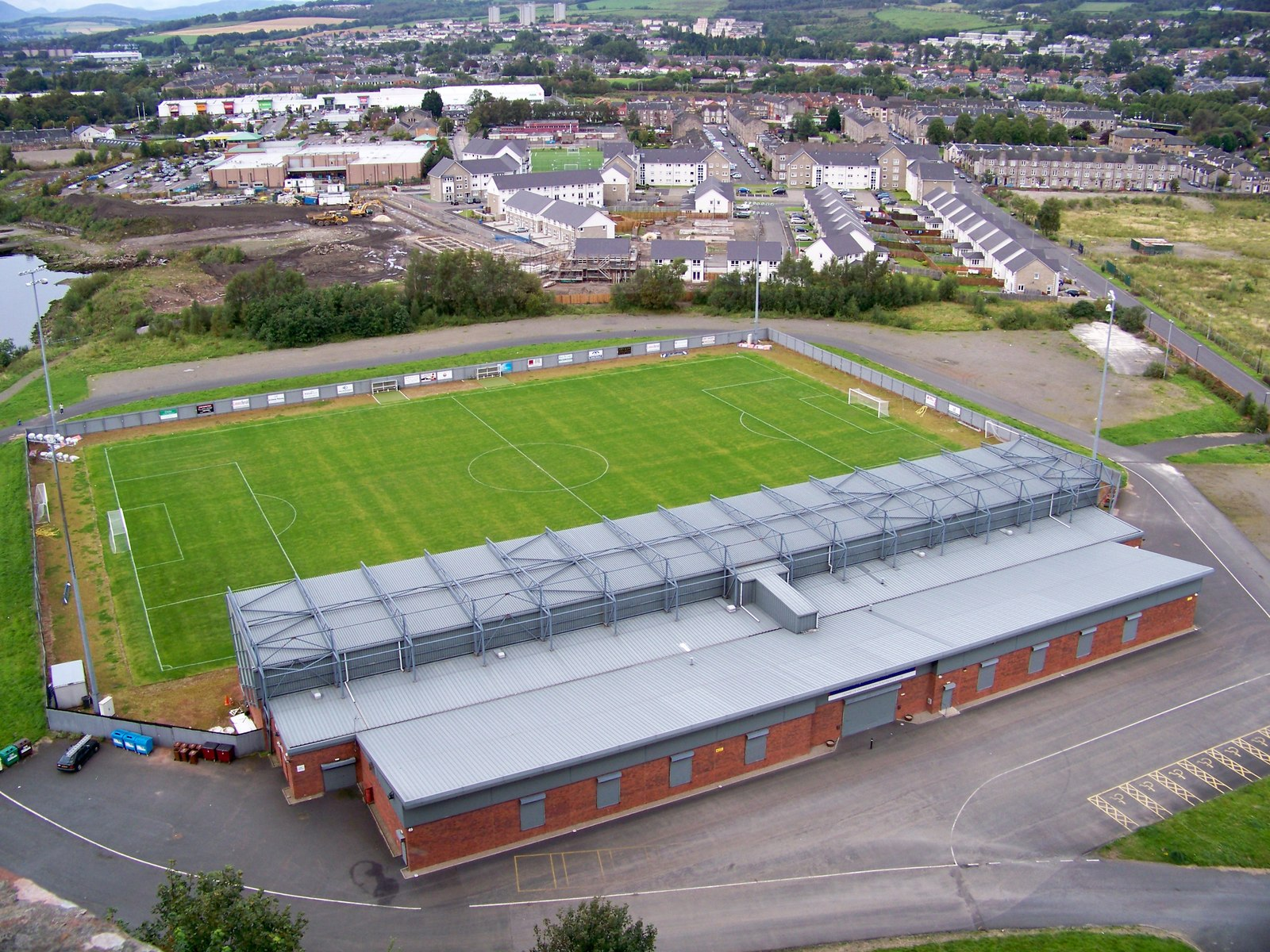 Strathclyde Homes Stadium - Home Of Dumbarton FC, near to Dumbarton, West Dunbartonshire, Great Britain.